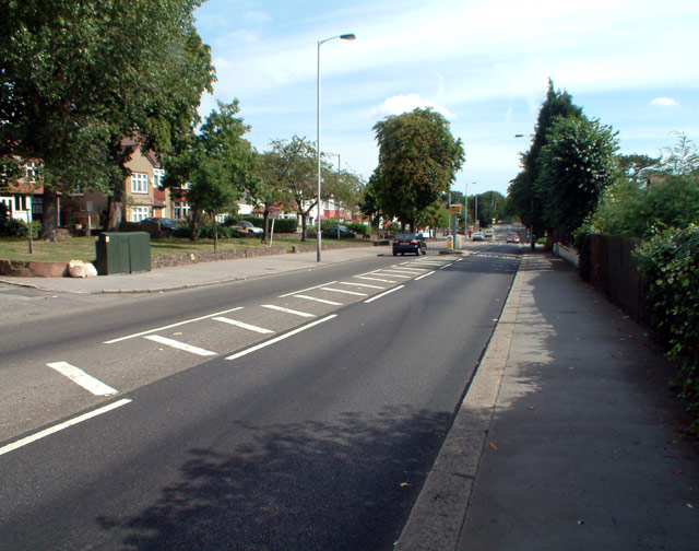 A215 Beulah Hill, Norwood SE19. Looking east from top end of Norbury Hill.